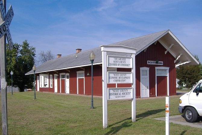 The Scottsburg Depot in Scottsburg, Indiana, United States.